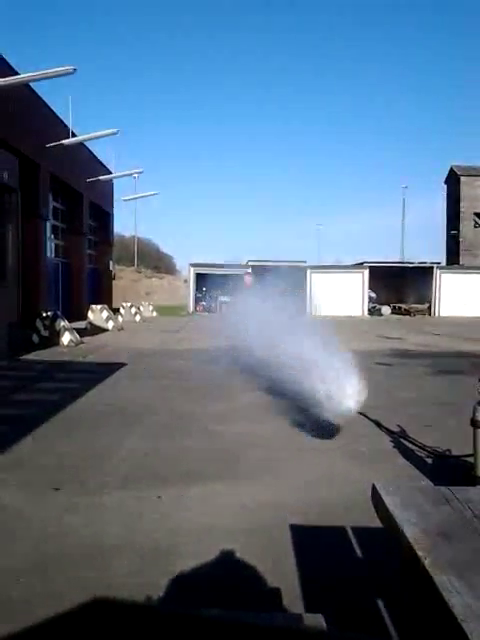 Snapshot of a waterstream fired with an IFEX